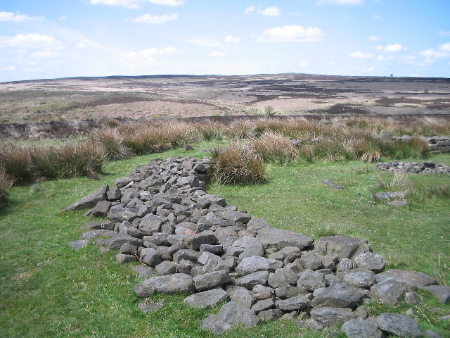 Barbrook Moor Stone Circle. This stone circle is unique in the area. The gaps between the standing stones have been filled with boulders to create a full ring with just one gap left as an entrance.